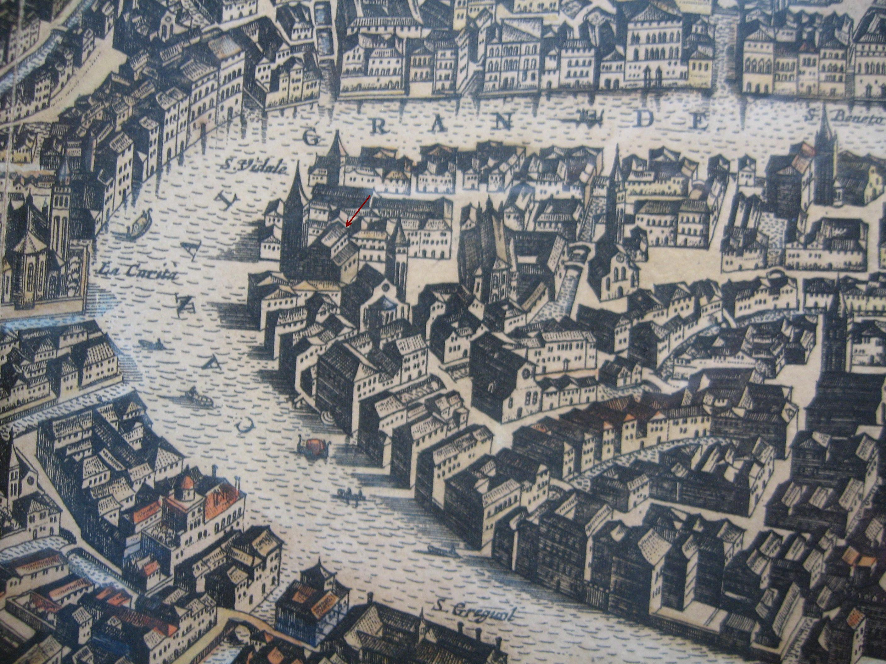 The Campo and Church of San Samuele (red arrow) where Casanova was born and baptized. Cropped from a map of Venice from the 17th. century. The huge Palazzo Grassi on the north side of the church is not shown since it was built much later, when Casanova was in his mid 20s.